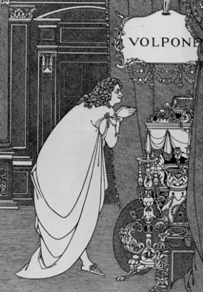 An illustration for an 1898 edition of Volpone by Aubrey Beardsley